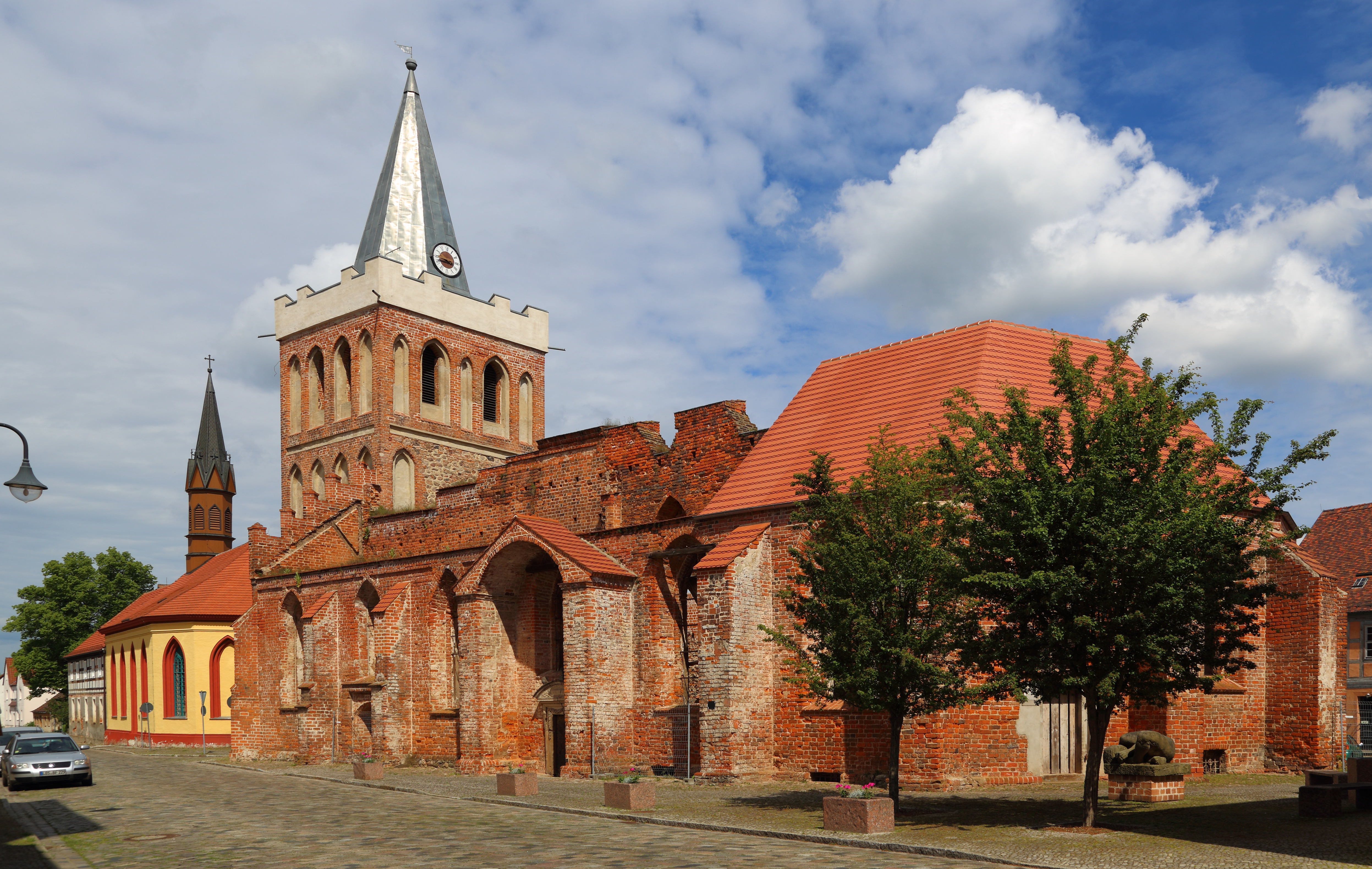 The City Church (Stadtkirche) and the Country Church (Landkirche) are the two Protestant churches in the city centre of Lieberose, Landkreis Dahme-Spreewald, Brandenburg, Germany. Both churches are situated at Market [Street] (Markt) and listed cultural heritage monuments. The City Church was almost completely destroyed during a bombing at the end of World War II.